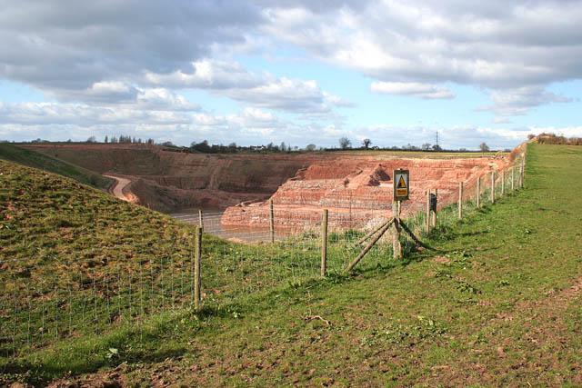 Quarry at Ibstock This is a clay pit owned by Ibstock Brick, an international company which has its origins in the village of Ibstock. See this for the history of the company and this for interesting information about the environmental work undertaken by the company around the village of Ibstock .